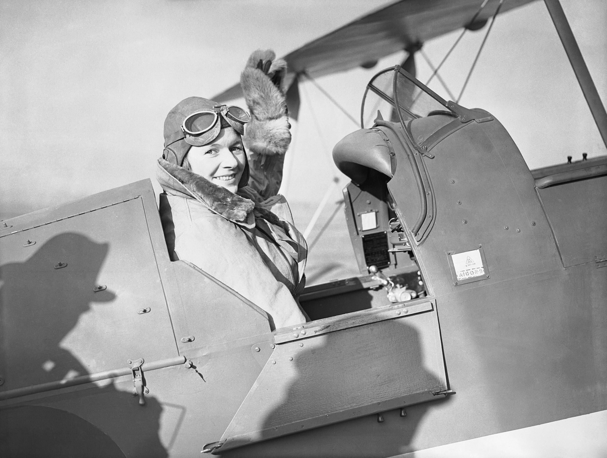 Pauline Gower, Commandant of the Air Transport Auxiliary Women's Section, waving from the cockpit of a de Havilland Tiger Moth at Hatfield, Hertfordshire, prior to a delivery flight, 10 January 1940. Air Transport Auxiliary (ATA): Women pilots, forming a section of the Air Transport Auxiliary service, ferried new Royal Air Force aircraft from factory to aerodrome. Photograph shows Pauline Gower, Commandant of the ATA Women's Section, waving from the cockpit of a De Havilland Tiger Moth at Hatfield, Hertfordshire, prior to a delivery flight. The shadow of the Air Ministry official photographer who took the picture, B J H Daventry, can be seen on the left.